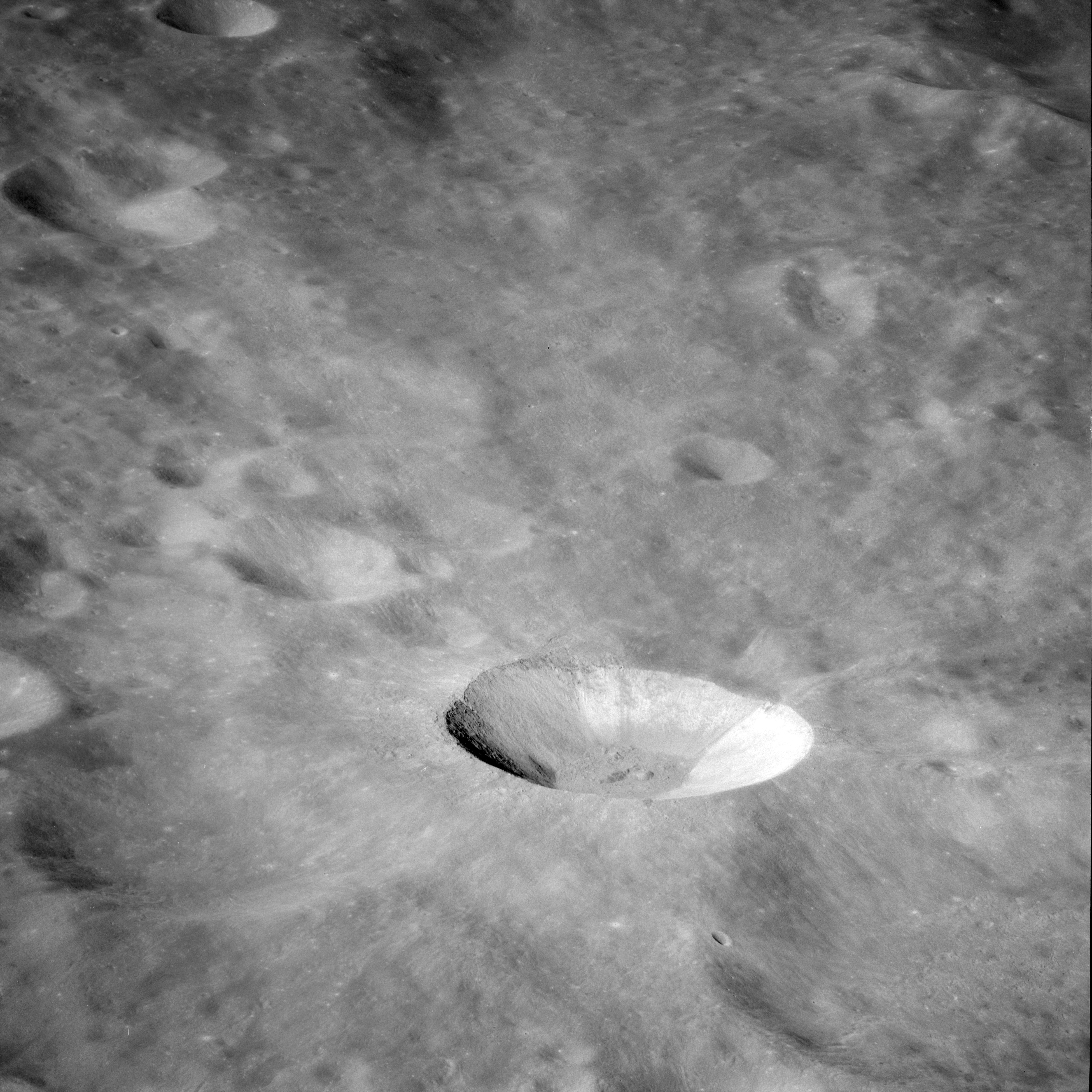 Oblique view of Mandel'shtam F crater, east of Mandel'shtam, on the far side of the moon. Facing northeast.